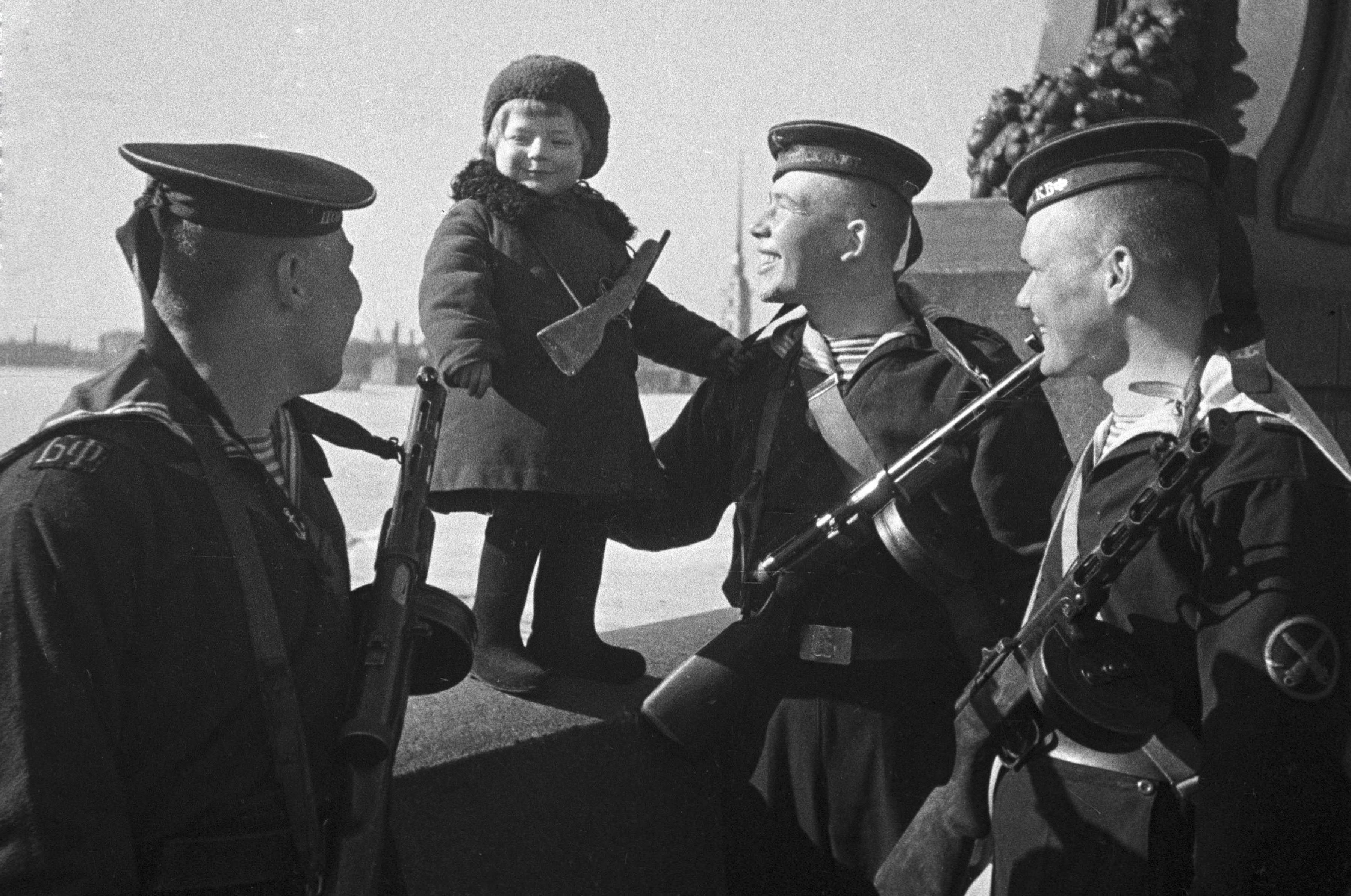 “Sailors of the Baltic Fleet are new parents of little girl Lucy”. Sailors of the Baltic Fleet with little girl Lucy whose parents died during the siege.